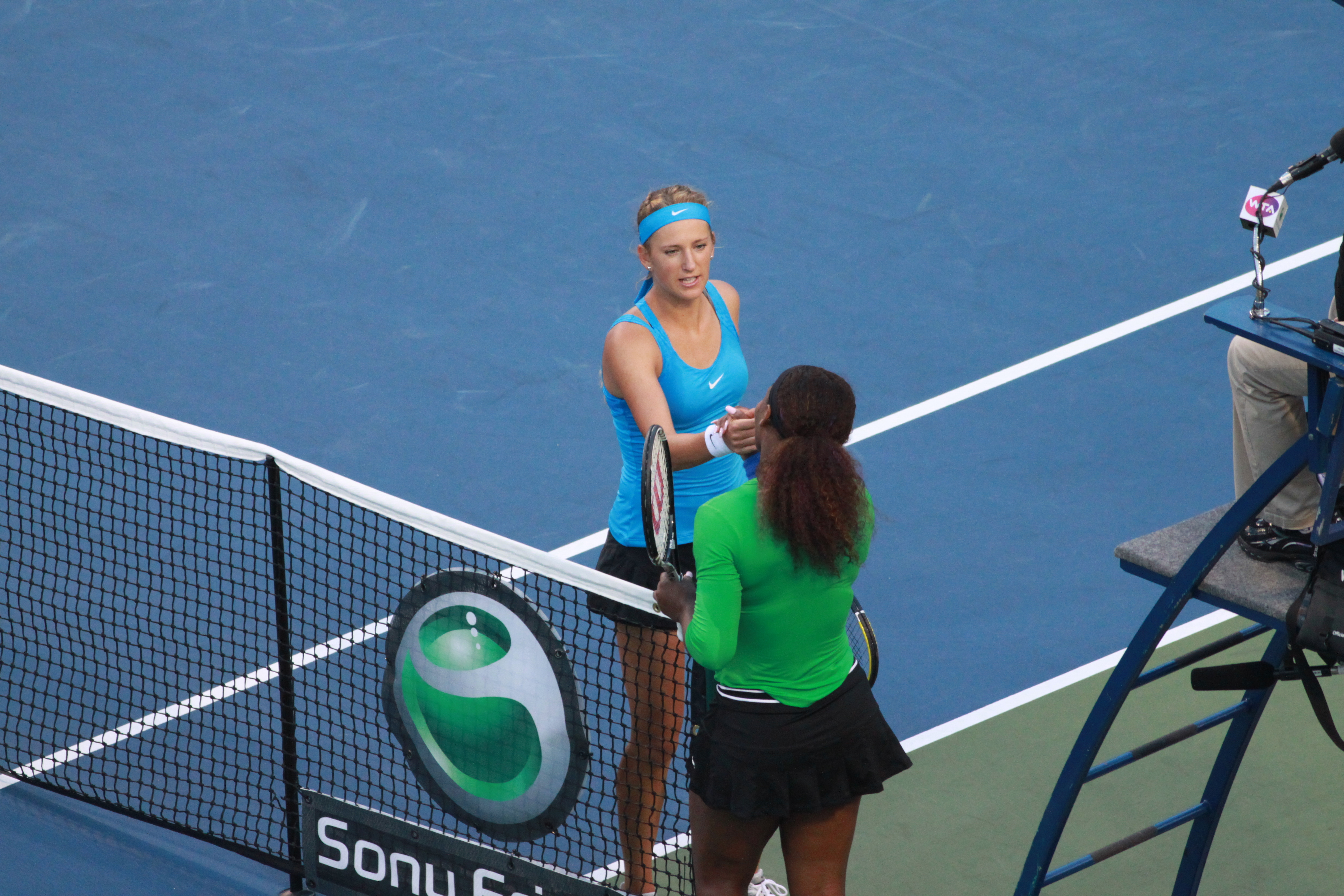 Rogers Cup 2011 Second Semifinal Serena Williams vs Victoria Azarenka